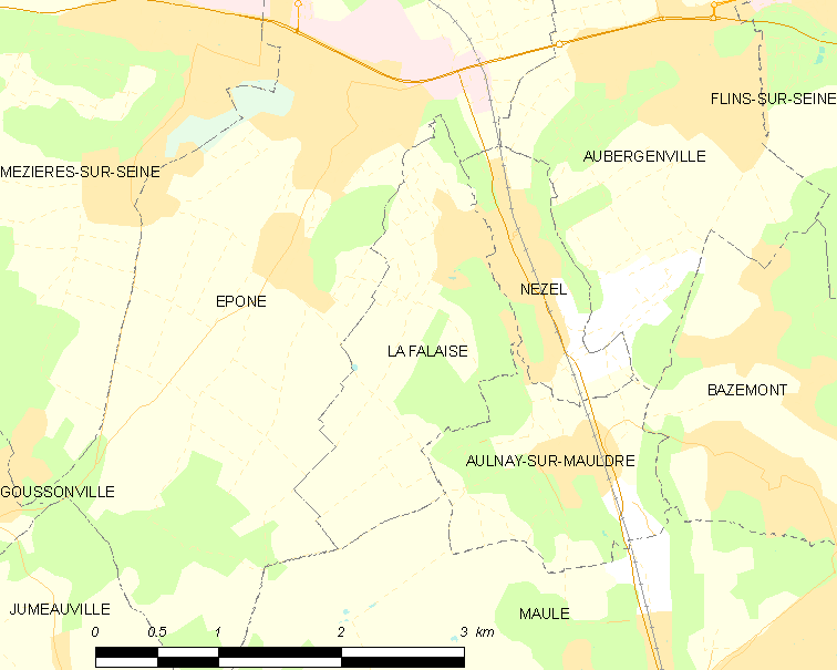 Map of French municipality La Falaise